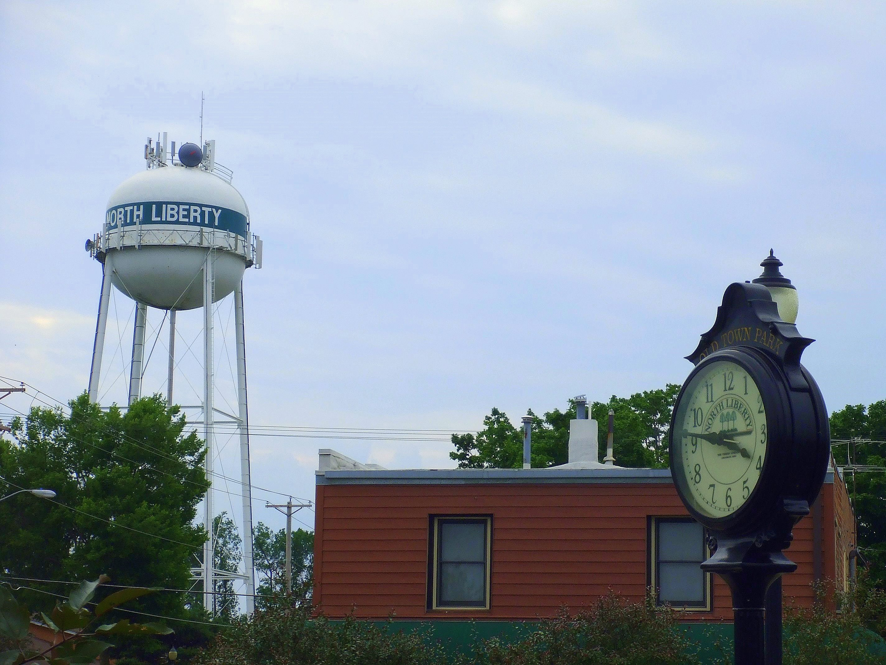 A view of the old North Liberty downtown area from Penn Meadows Park.